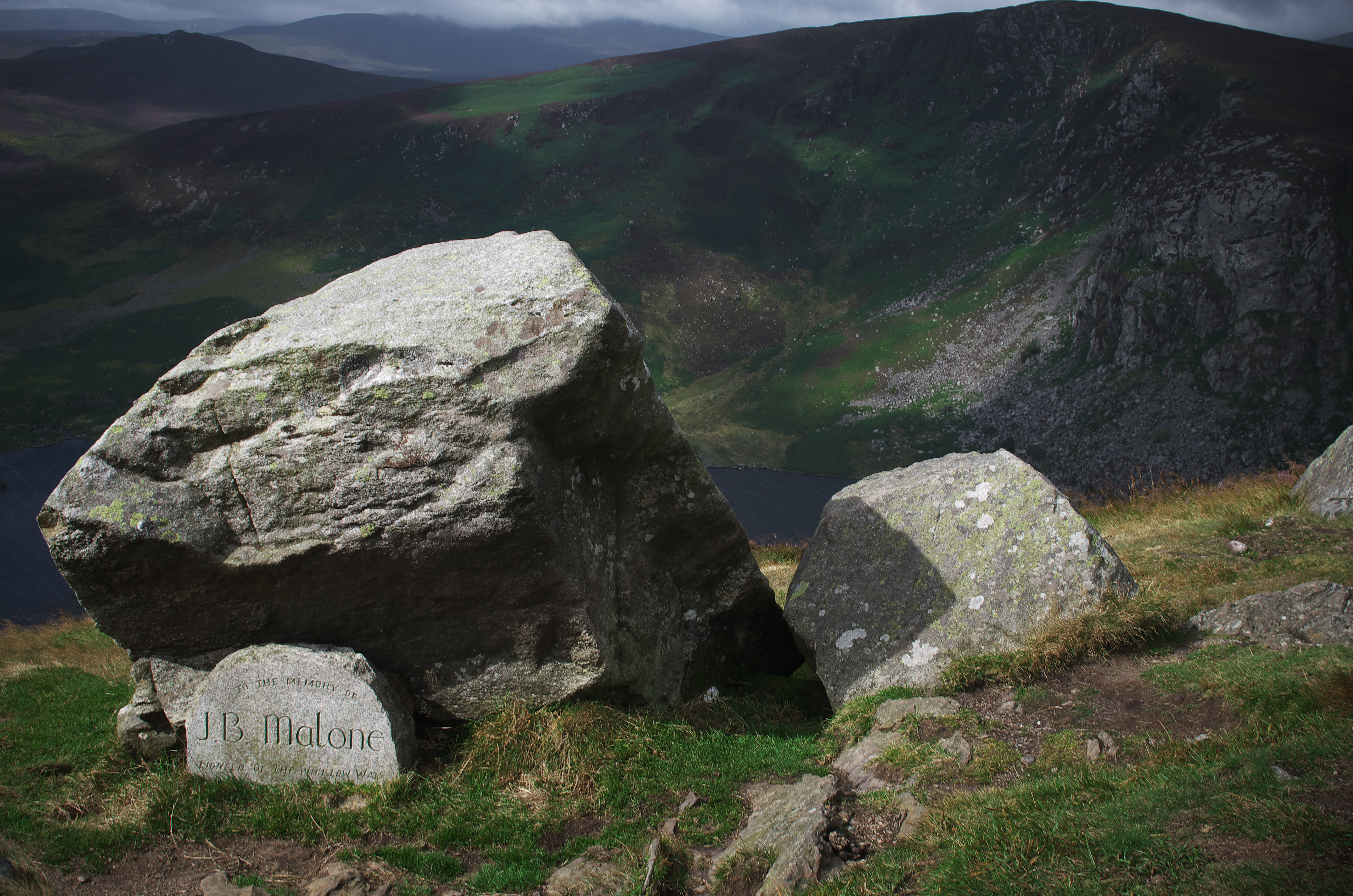 The JB Malone memorial, overlooking Lough Tay and Luggala. Himself was instrumental in founding the Wicklow Way, of which this is a part.